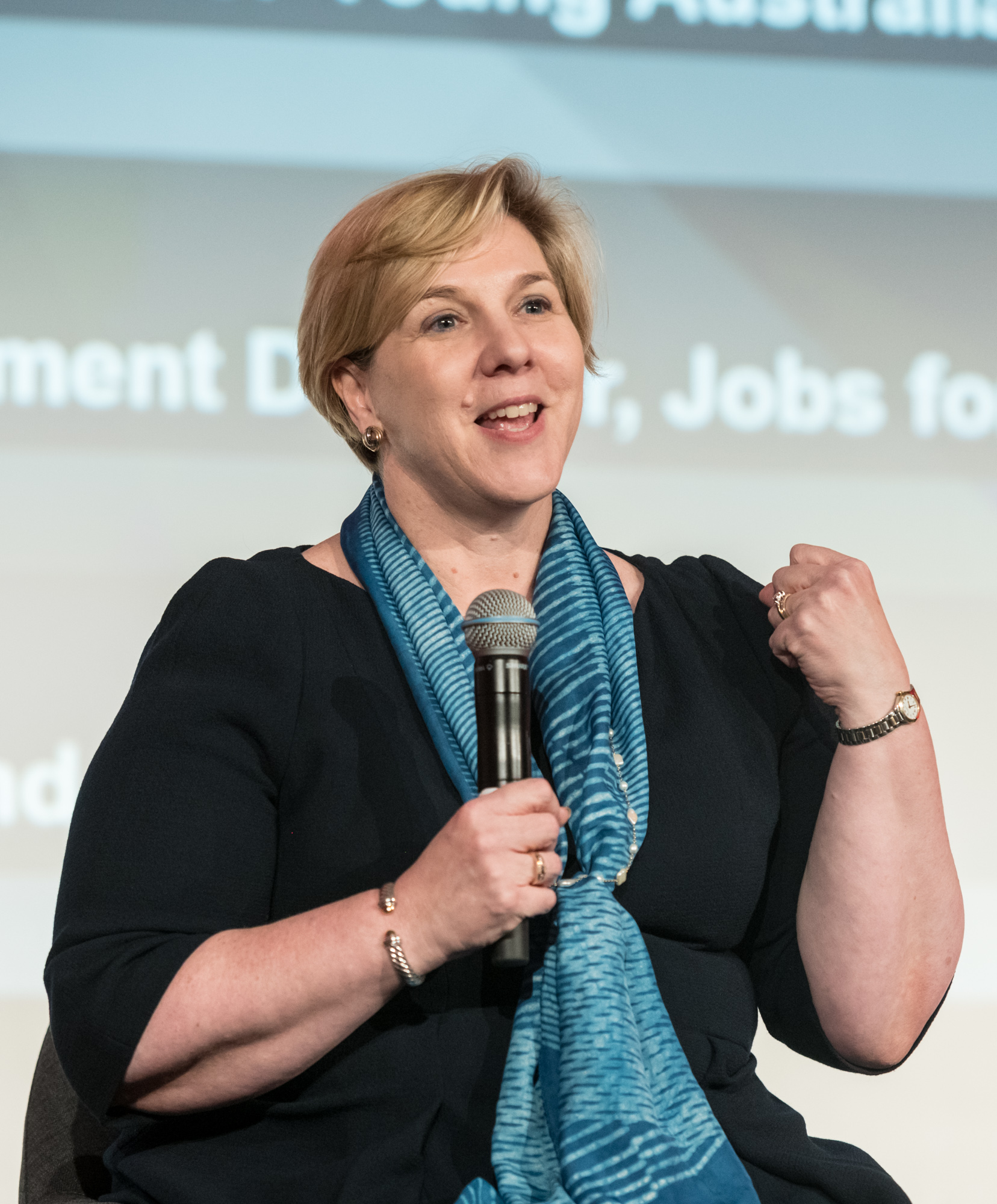 Robyn Denholm during CeBIT Australia 2018 Day 2 Keynote Panel.